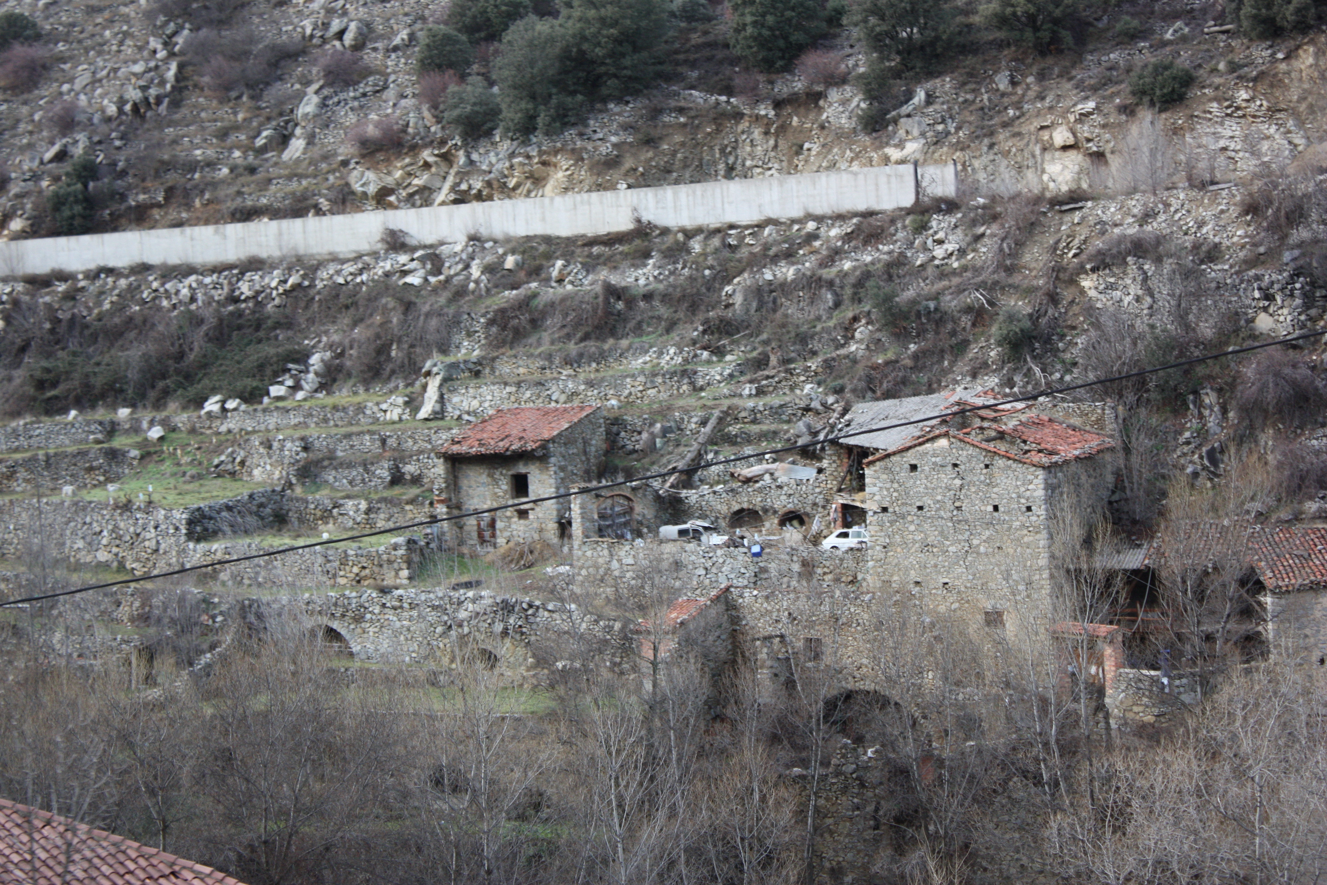 Houses of el Pont de Bar Vell (Alt Urgell, Catalonia)